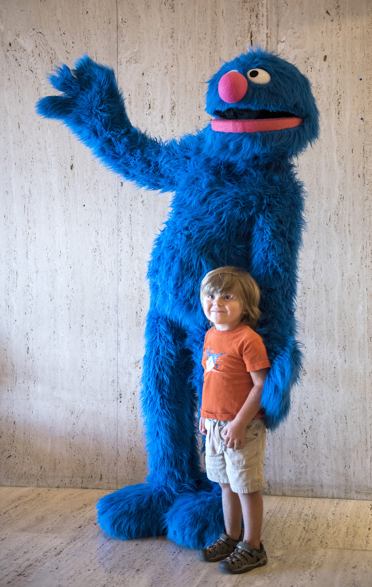 On Sunday, September 17th, 2017, the LBJ Library offered free admission for Austin Museum Day. The special day featured photos with Sesame Street's Grover, storytime readings and performances by River City Pops in the Great Hall. 09/17/2017 LBJ Library photo by Jay Godwin